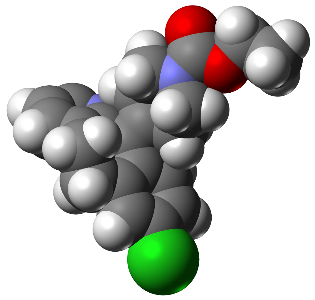 Loratadine molecule Van-der-Waals 3D model. Structure created in Avogadro, rendered in DS Visualizer. PubChem 3D model was used as a reference (methodology).